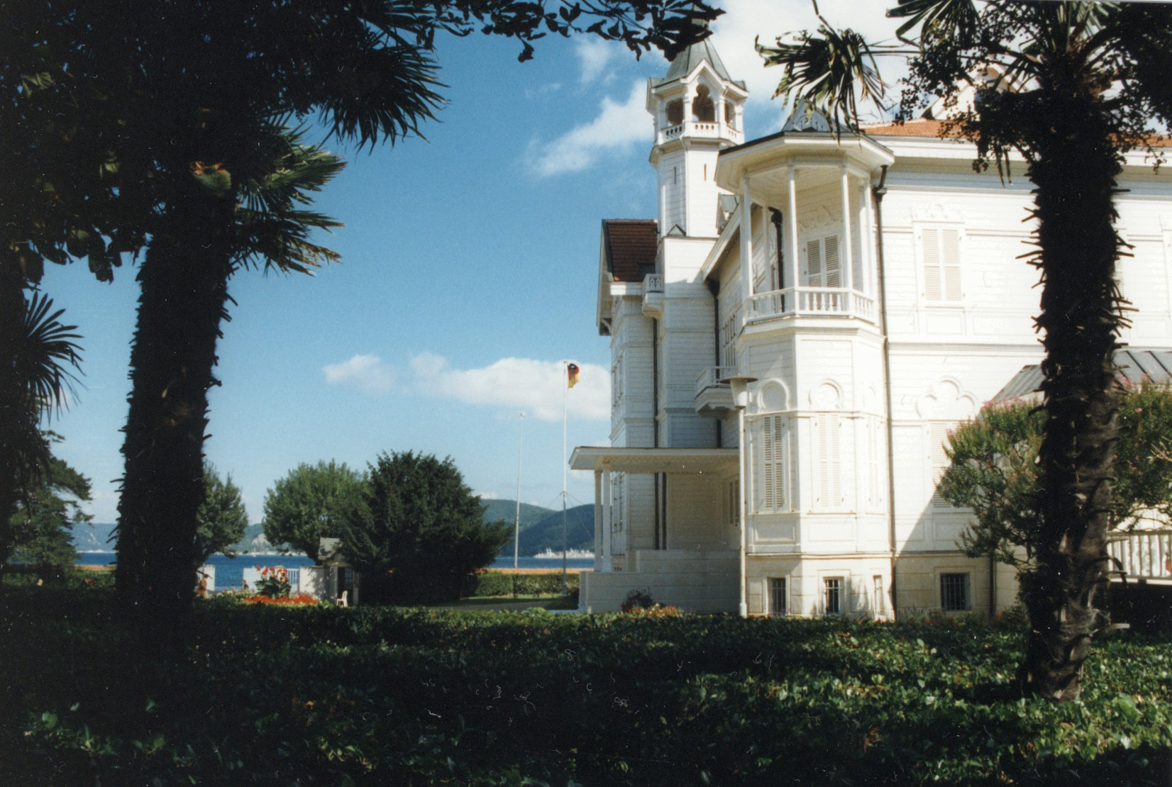 Historical Summer residence of the German embassador in the Ottoman Empire. Located in at the shore of the Bosphorus in Tarabya, Istanbul, Turkey.